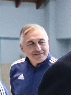 Mauricio Macri alongside the Argentina women's national association football team before the start of the 2019 Women's World Cup.